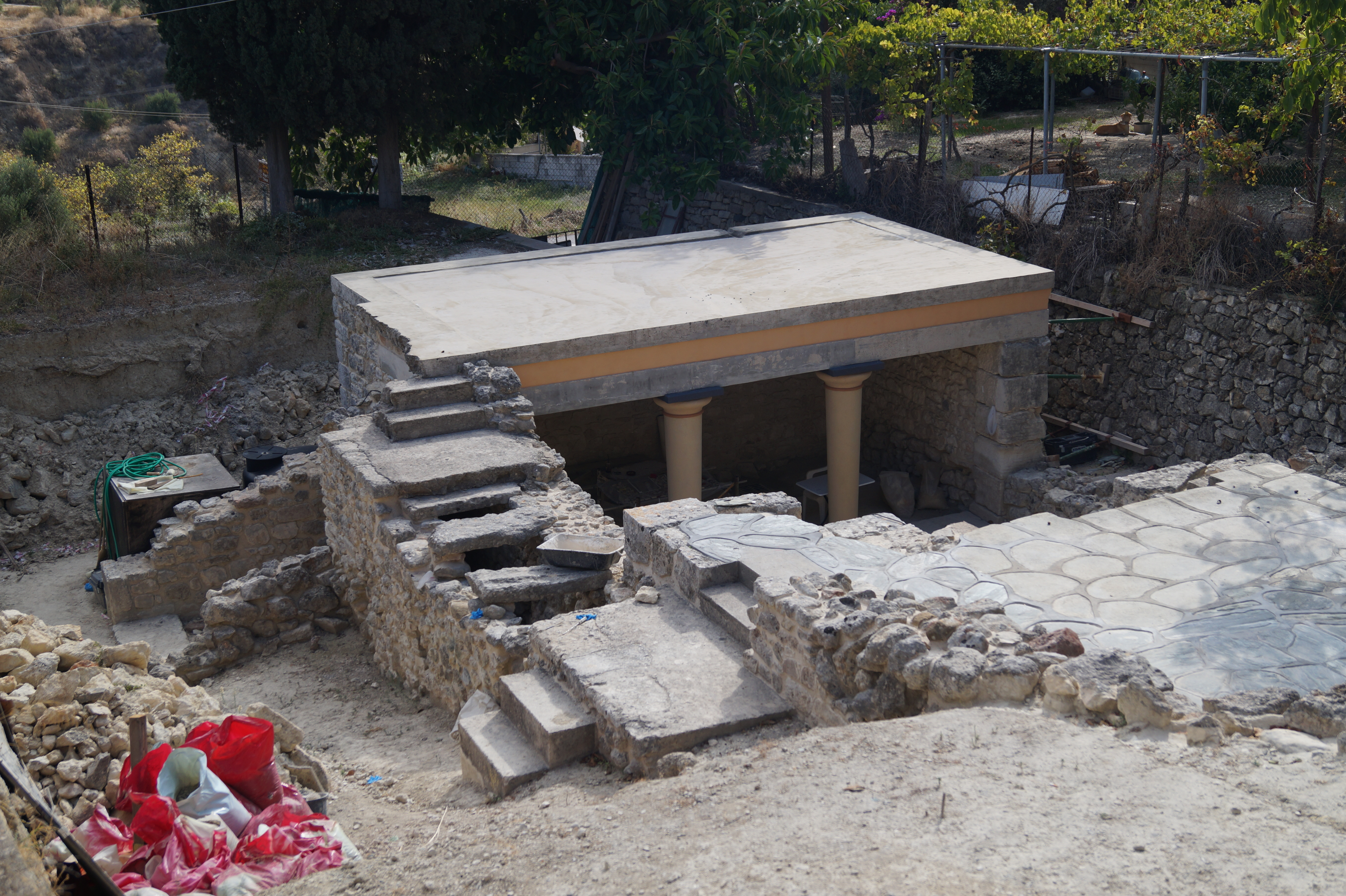 Crete, Knossos: Pavilion of Royal Temple Tomb.